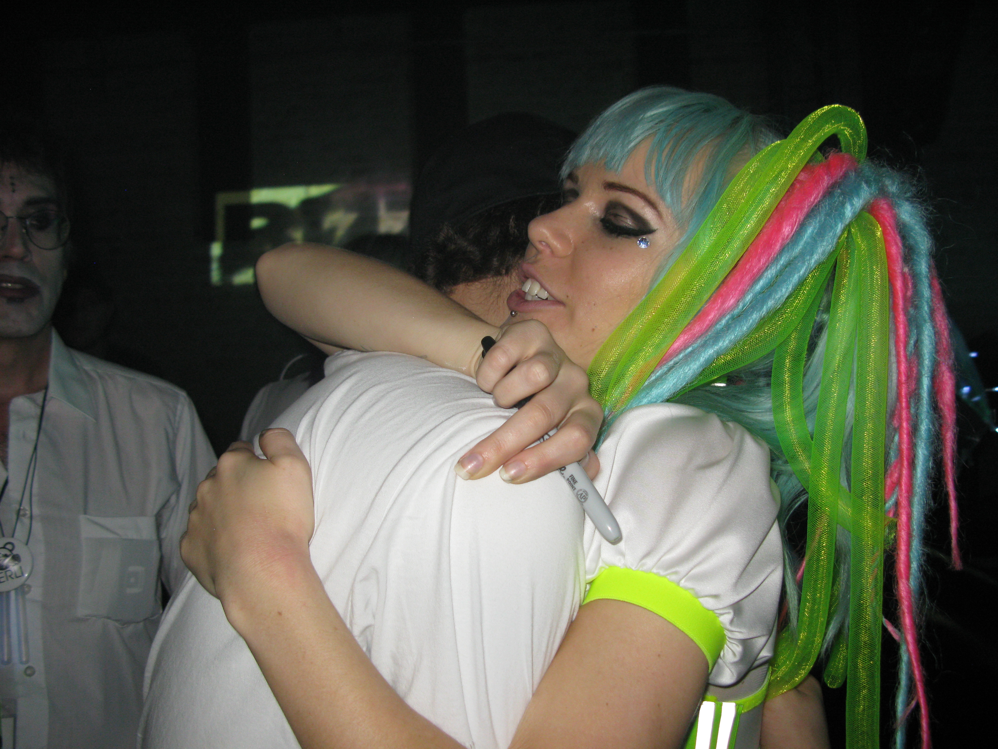 Kerli hugs a fan at the 2011 South by Southwest at the PureVolume House.